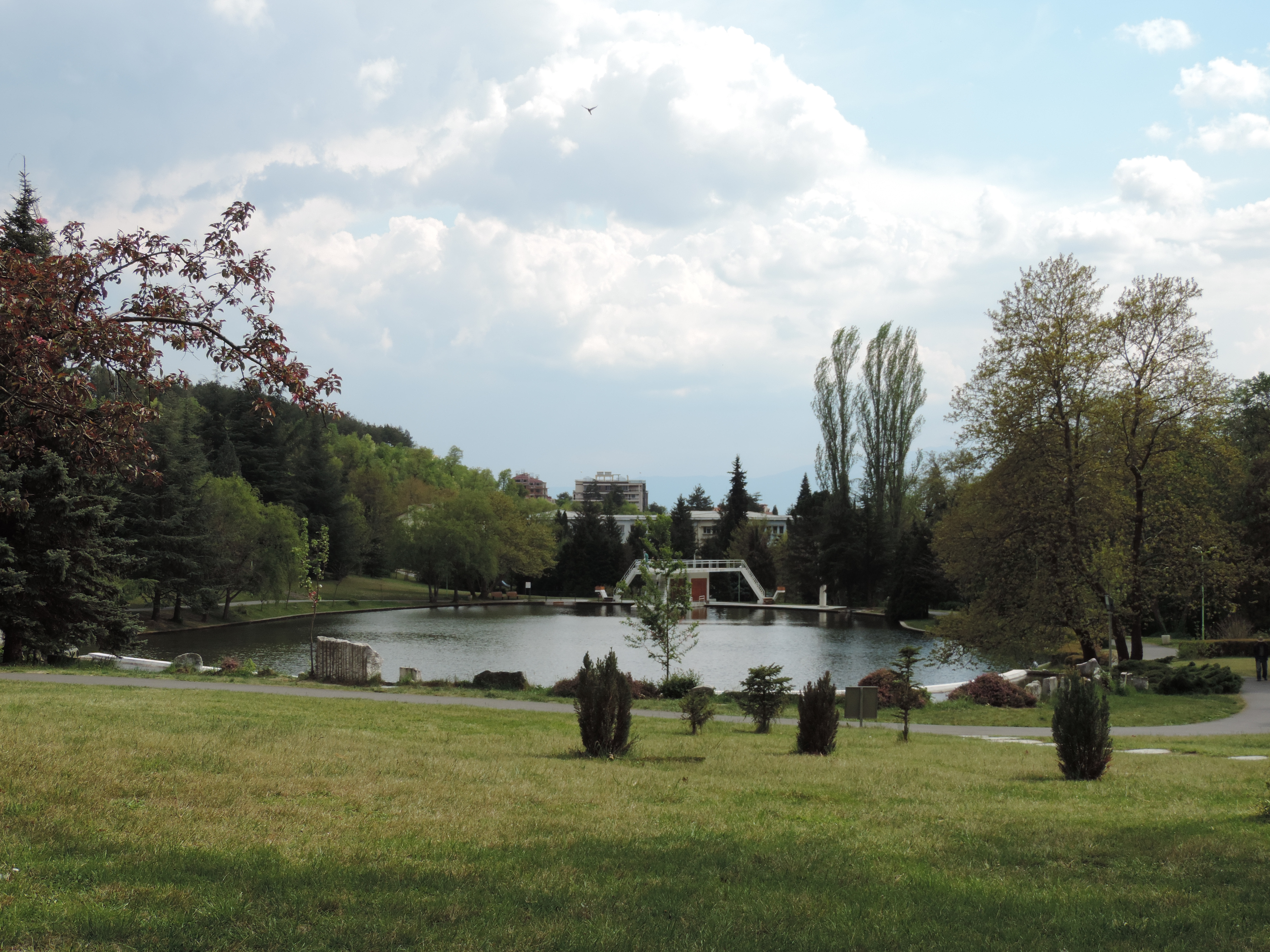 St. Vrach park, Sandanski, Bulgaria